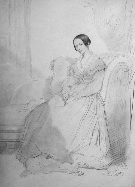 Portrait de Madame Abel Warocqué, née Henriette Marischal